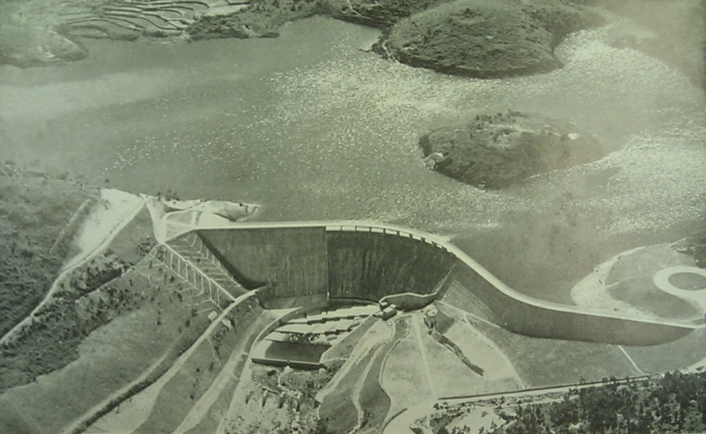 Ho Pui Dam in 1961